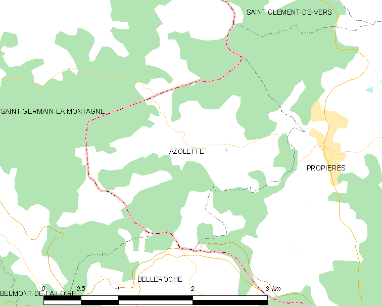 Map of French municipality